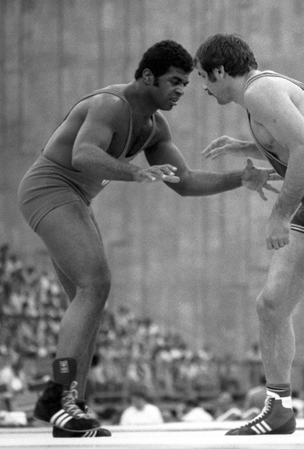 “Match between B.Morgan, Cuba, and Ilya Mate, USSR”. Match between Bárbaro Morgan, Cuba, and silver medalist of the 1980 Olympiad Ilya Mate, USSR. Freestyle wrestling. XXII Summer Olympic Games (July 19- August 3, 1980).